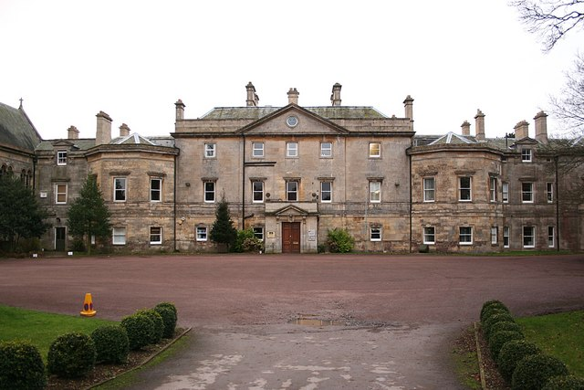 Wellingore Hall. Wellingore Hall was the 18th century home of the Neviles who abandoned their ancestral home at Aubourn 48406 though the family returned to Aubourn after the Second World War. The central part is c1780 with lateral additions c1800 and again in 1876. It is now offices and apartments.